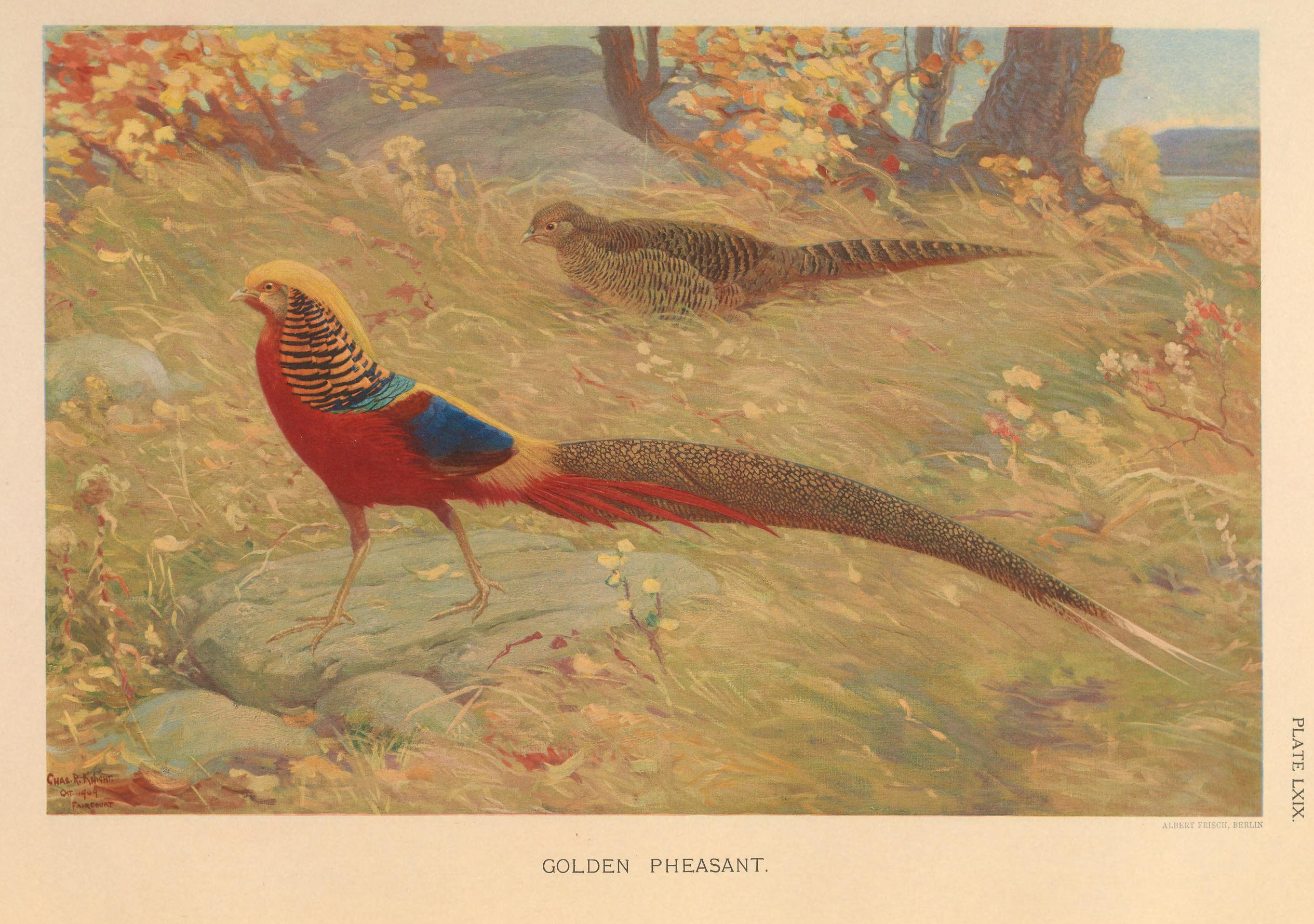 Golden Pheasant (Chrysolophus pictus)